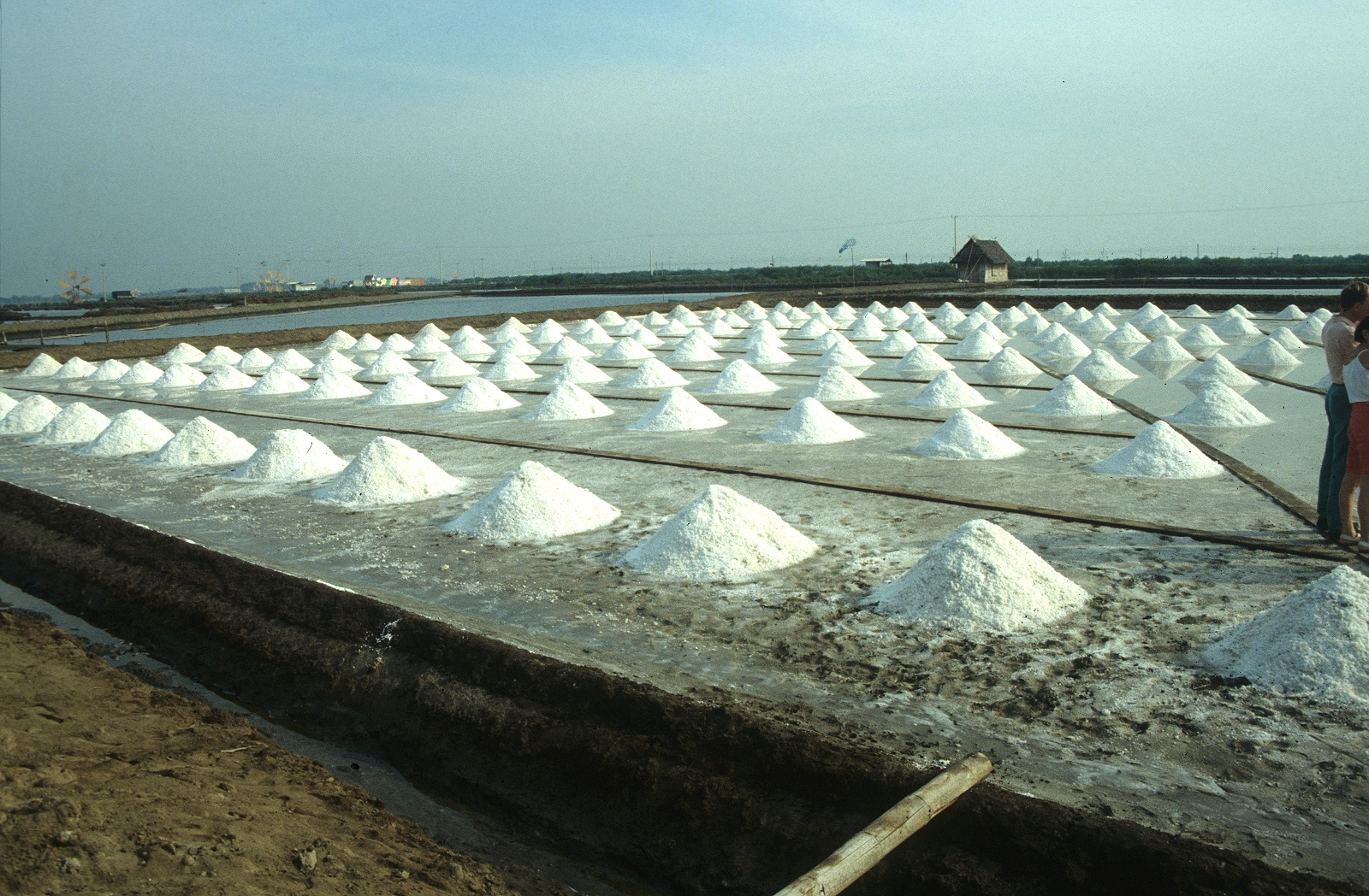 salt extraction near Bangkok